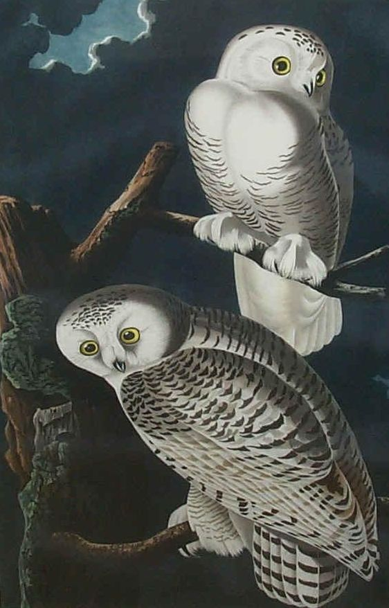 Bubo_scandiacus